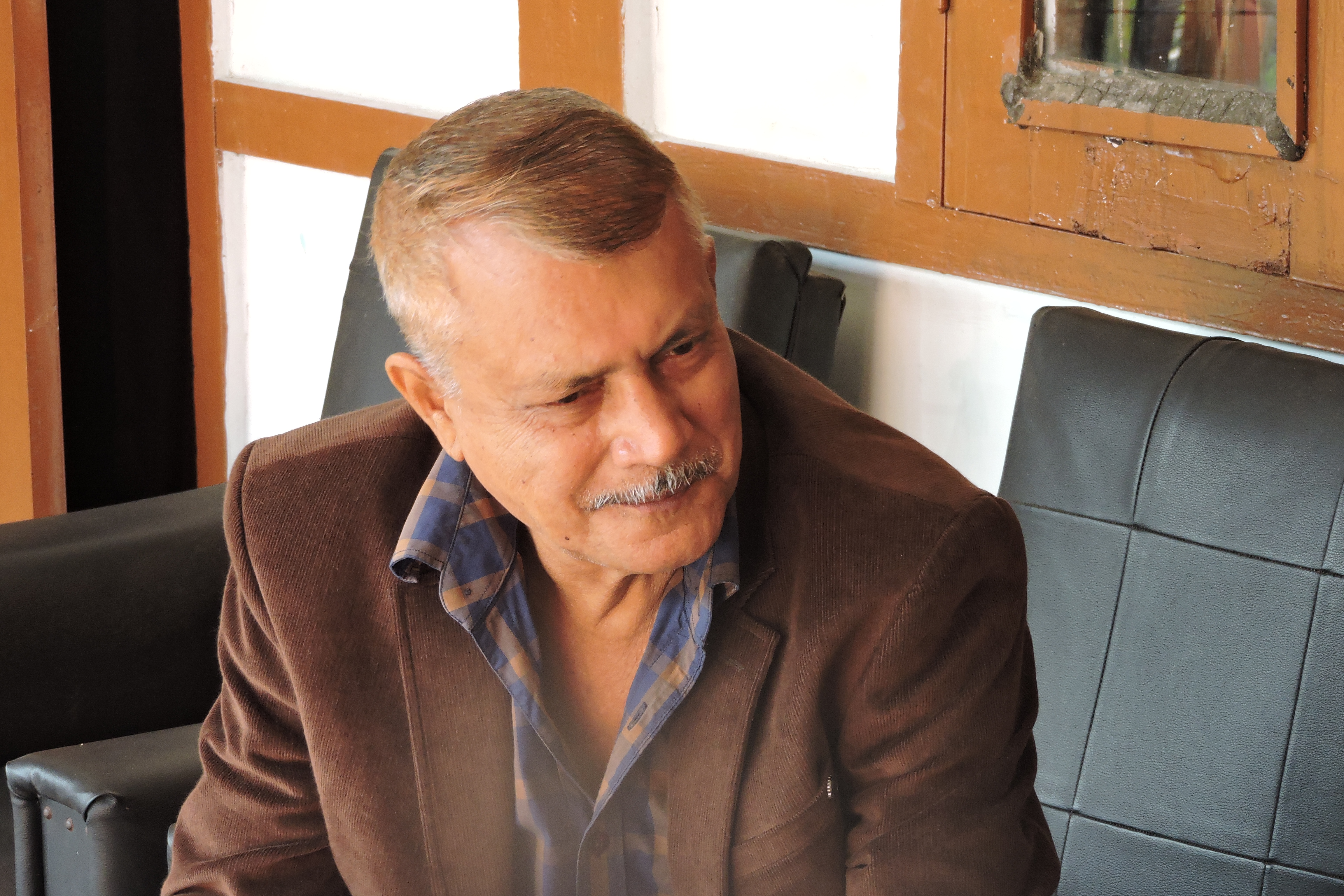 Jnan Pujari at Kaziranga NAtional Park